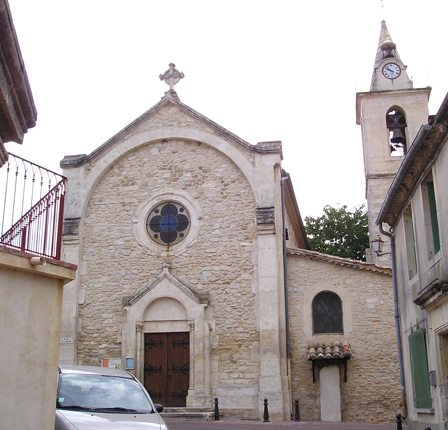 In Hérault, France, the church Sainte-Agnès of Saint-Aunès.